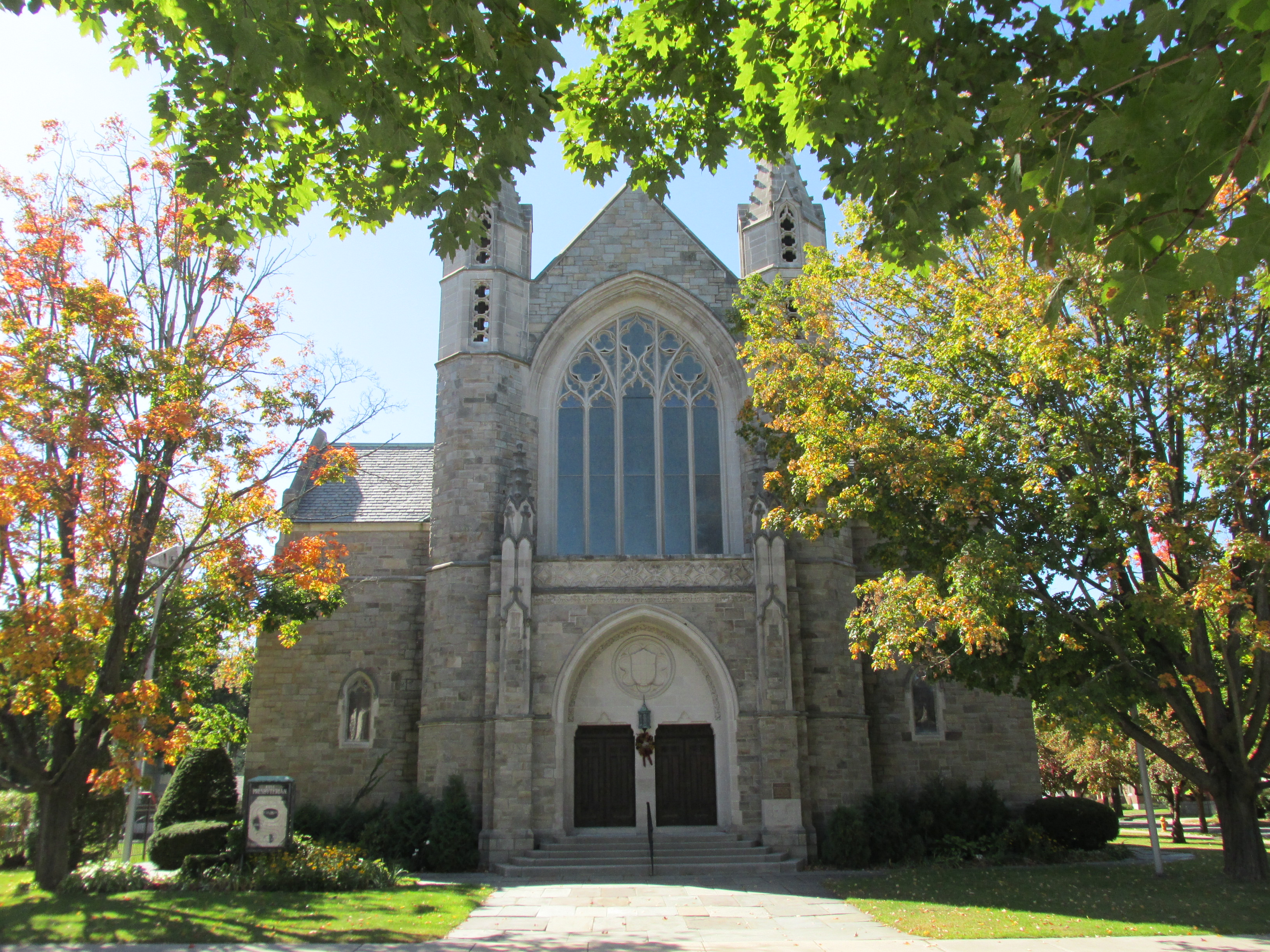 First Presbyterian Church, Glens Falls New York